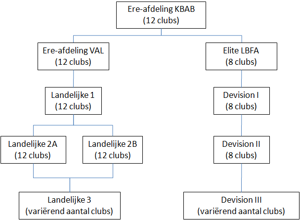 Structure of the Belgian championship for athletic clubs.